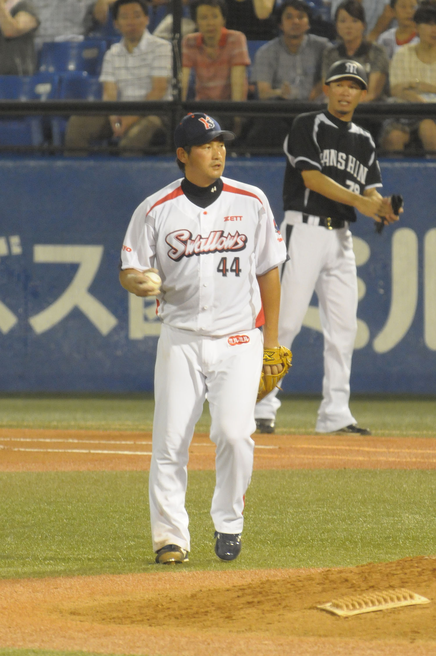 Kosuke Matsui, pitcher of the Tokyo Yakult Swallows, at Meiji Jingu Stadium.